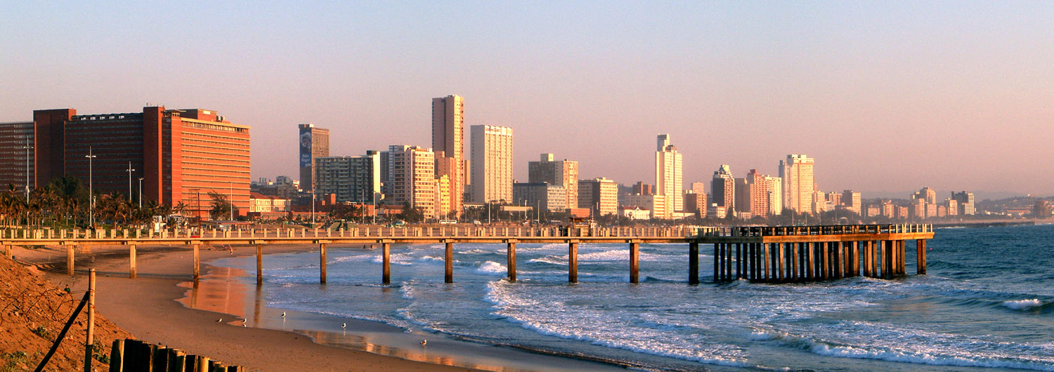 Skyline of Durban, South Africa, in the morning. View from Vetchies pier. The red building on the left side ist Addington Hospital, followed by the beachfront.